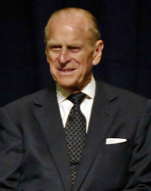 Prince Philip, The Duke of Edinburgh, during a visit to the NASA Goddard Space Flight Center in Greenbelt, Maryland.